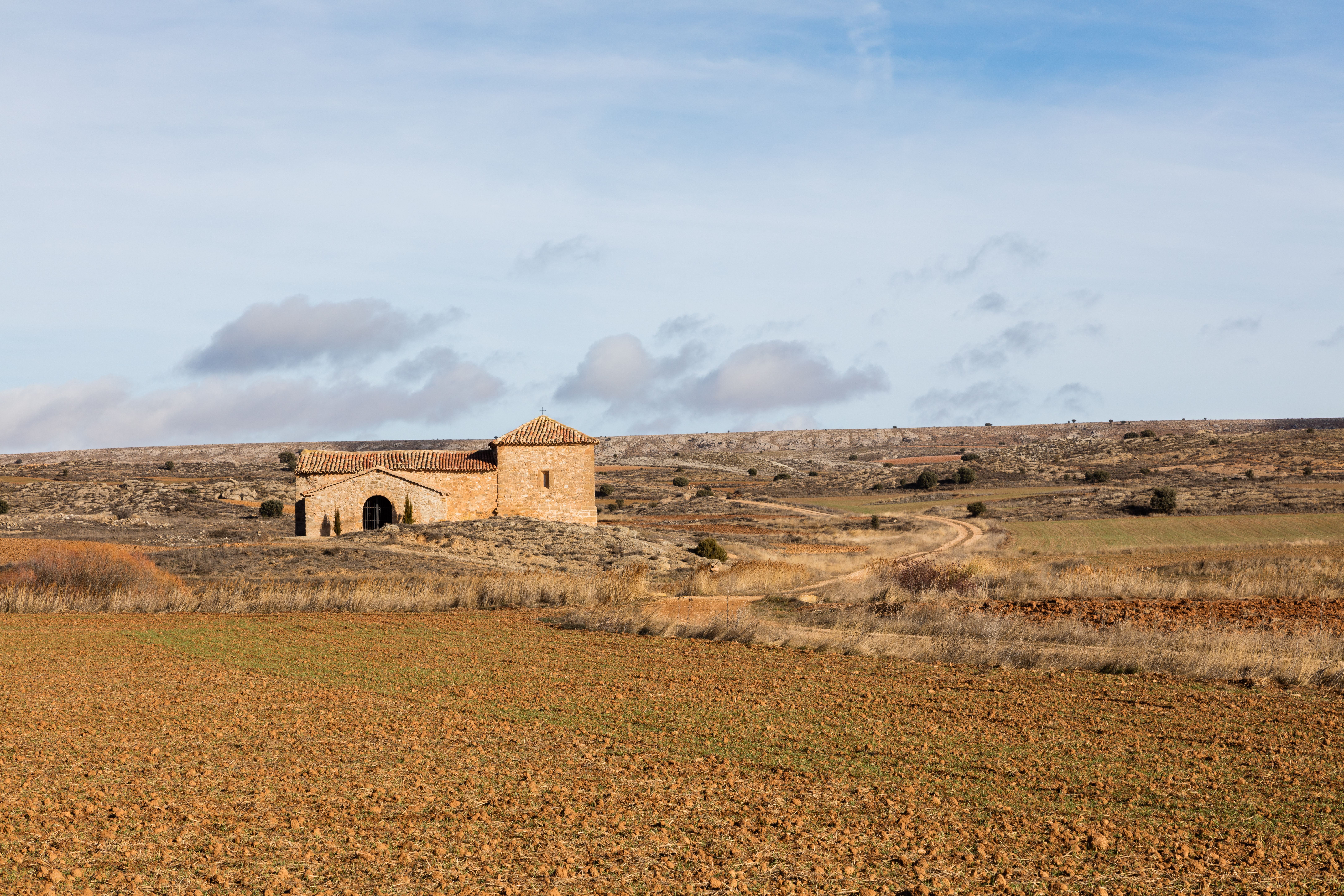 Hermitage of Virgen de la Mencalilla, Almazul, Soria, Spain